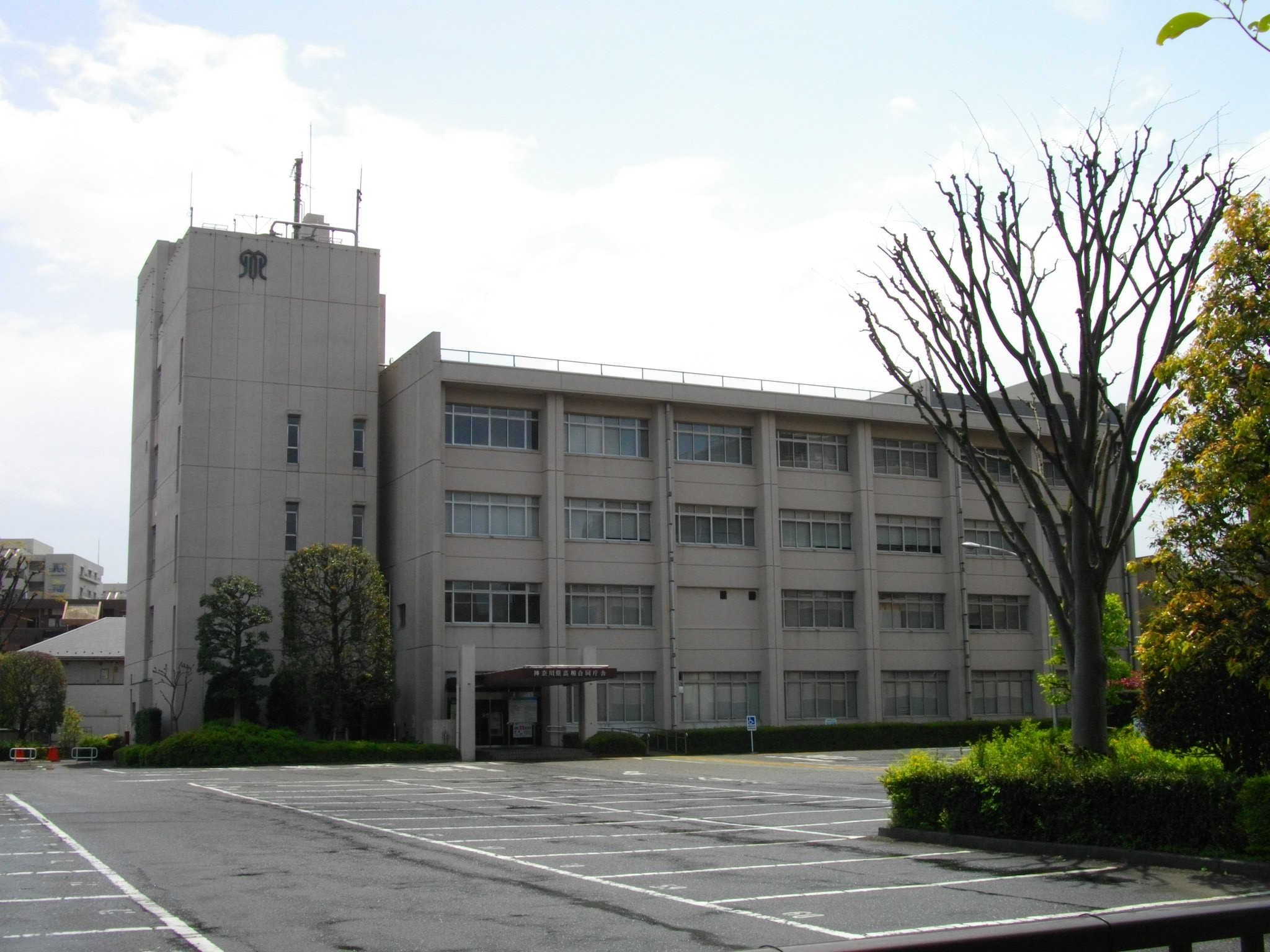 Kanagawa Prefecture Koso Government Complex